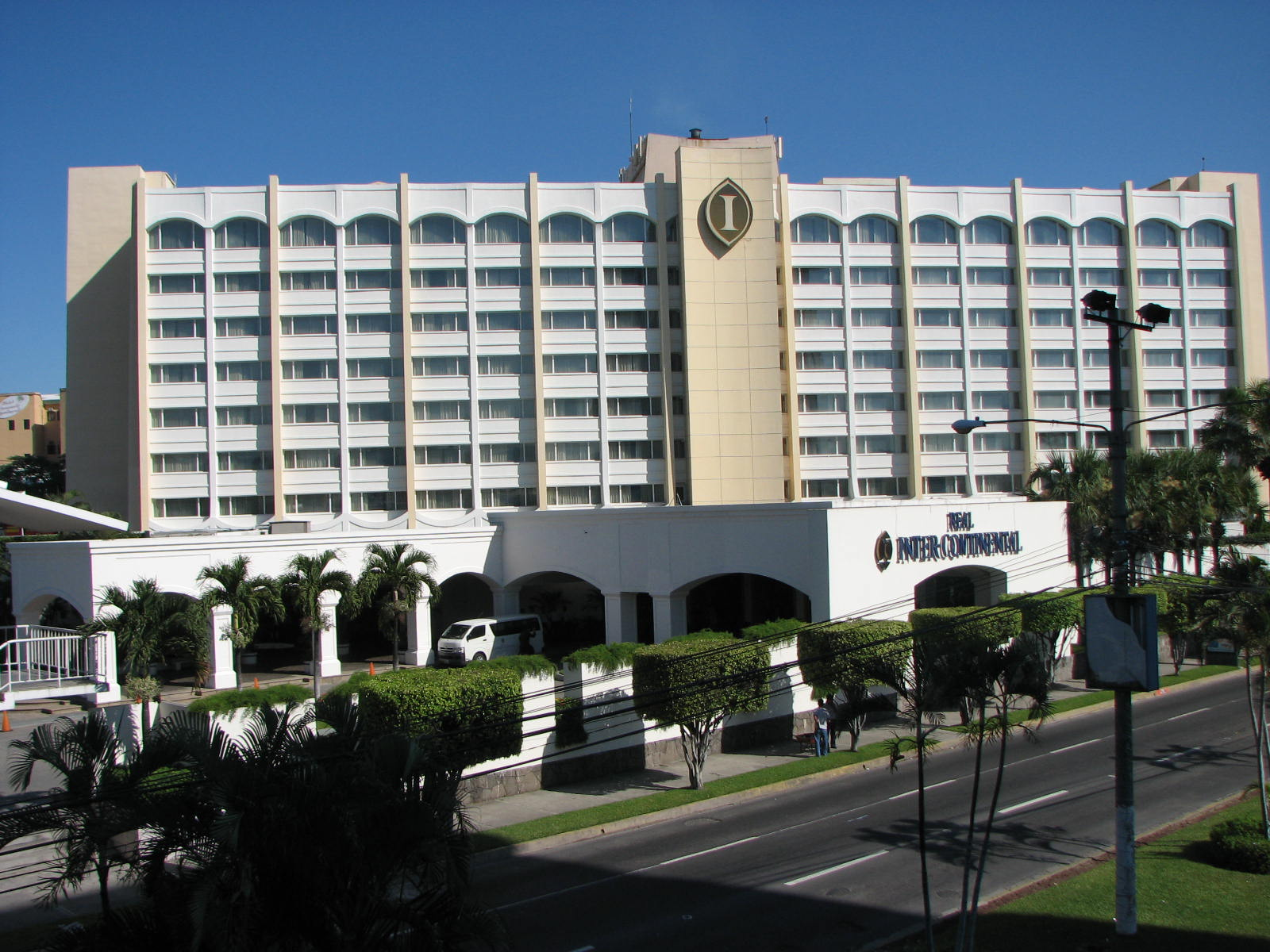 Intercontineltal Hotel in San Salvador.